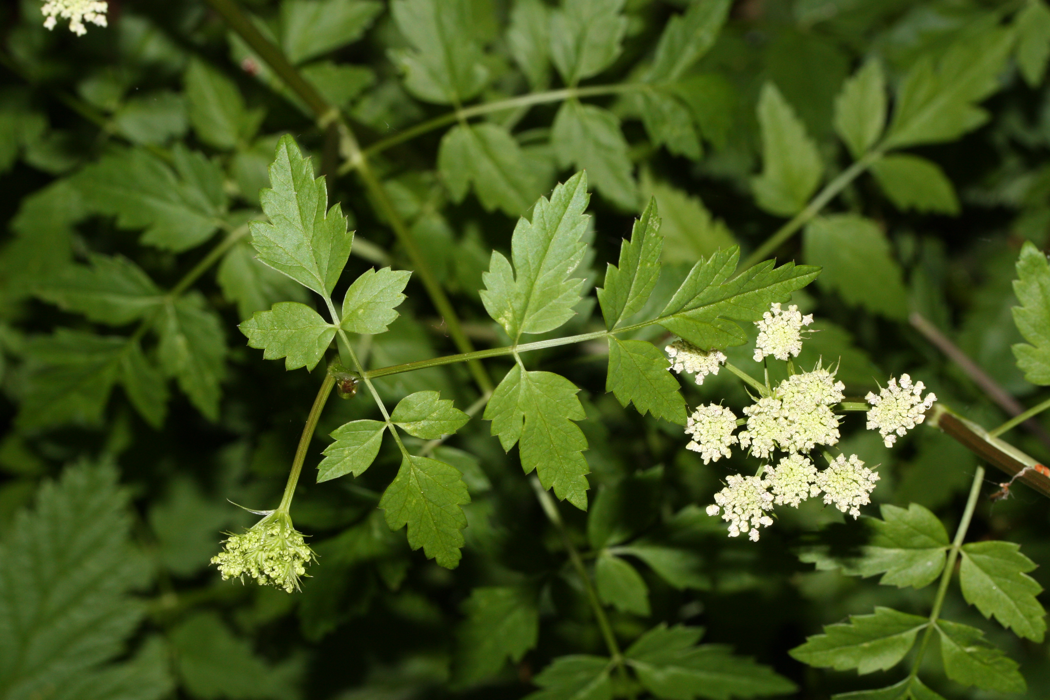 Water-parsley, Pacific Water-dropwort